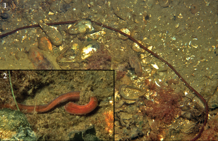 Lineus longissimus, picture taken in Grevelingen near Scharendijke (the Netherlands)